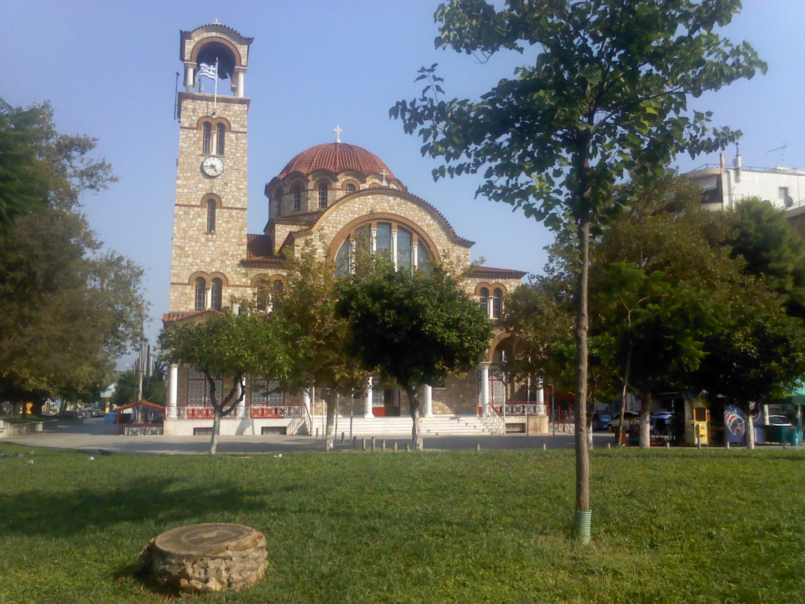 Church Agios Ioannis Rentis